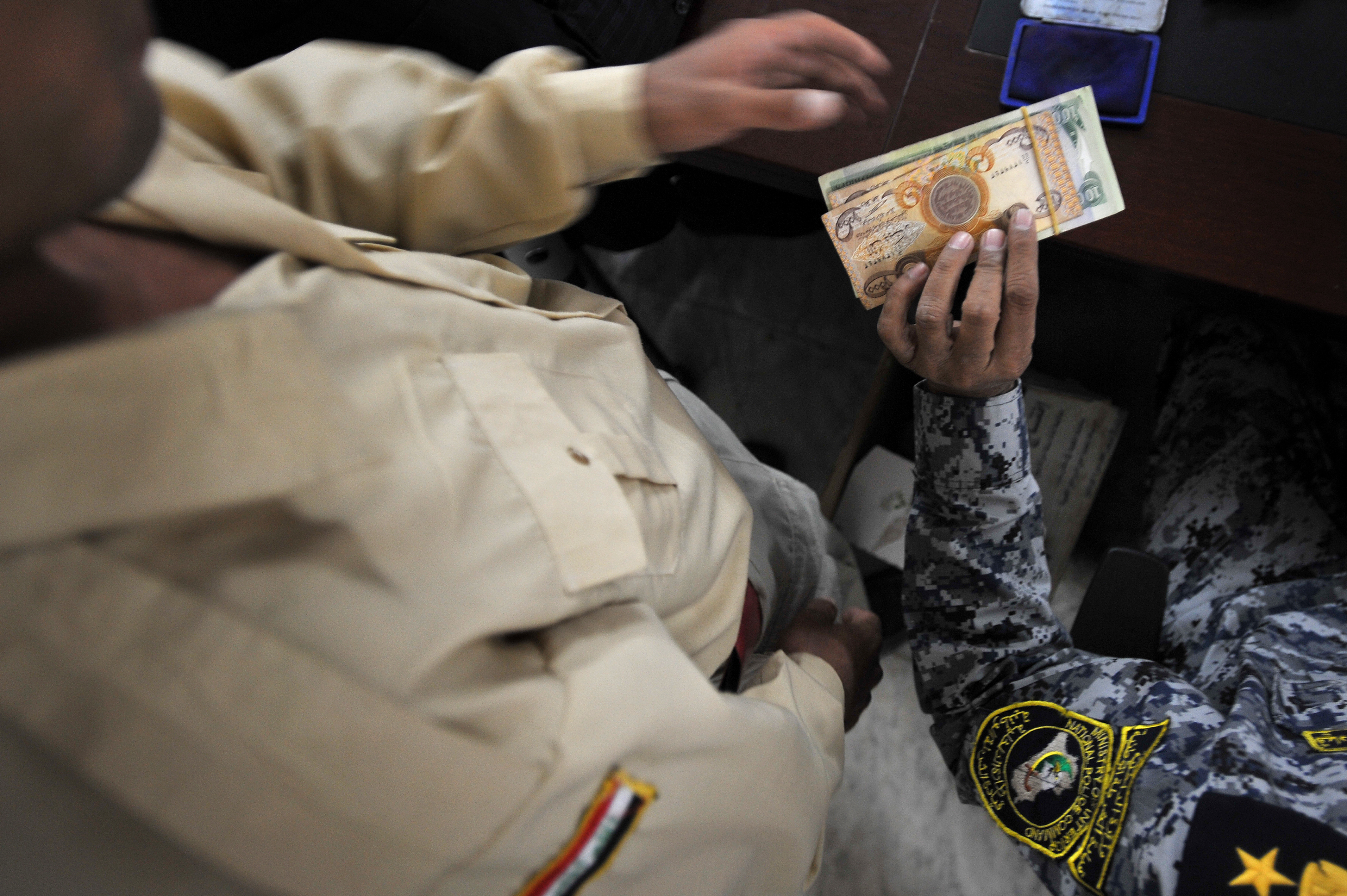 Iraqi national police give paychecks to the Sons of Iraq, at National Police Headquarters 372, marking the first time the Iraq government has assumed responsibility of finances with government employees, Nov. 10, 2008 in the Doura community of southern Baghdad, Iraq. U.S. Soldiers from the 2nd Battalion, 4th Infantry Regiment, 1st Brigade Combat Team, 4th Infantry Division, Multi-National Division - Baghdad supported the transactions.